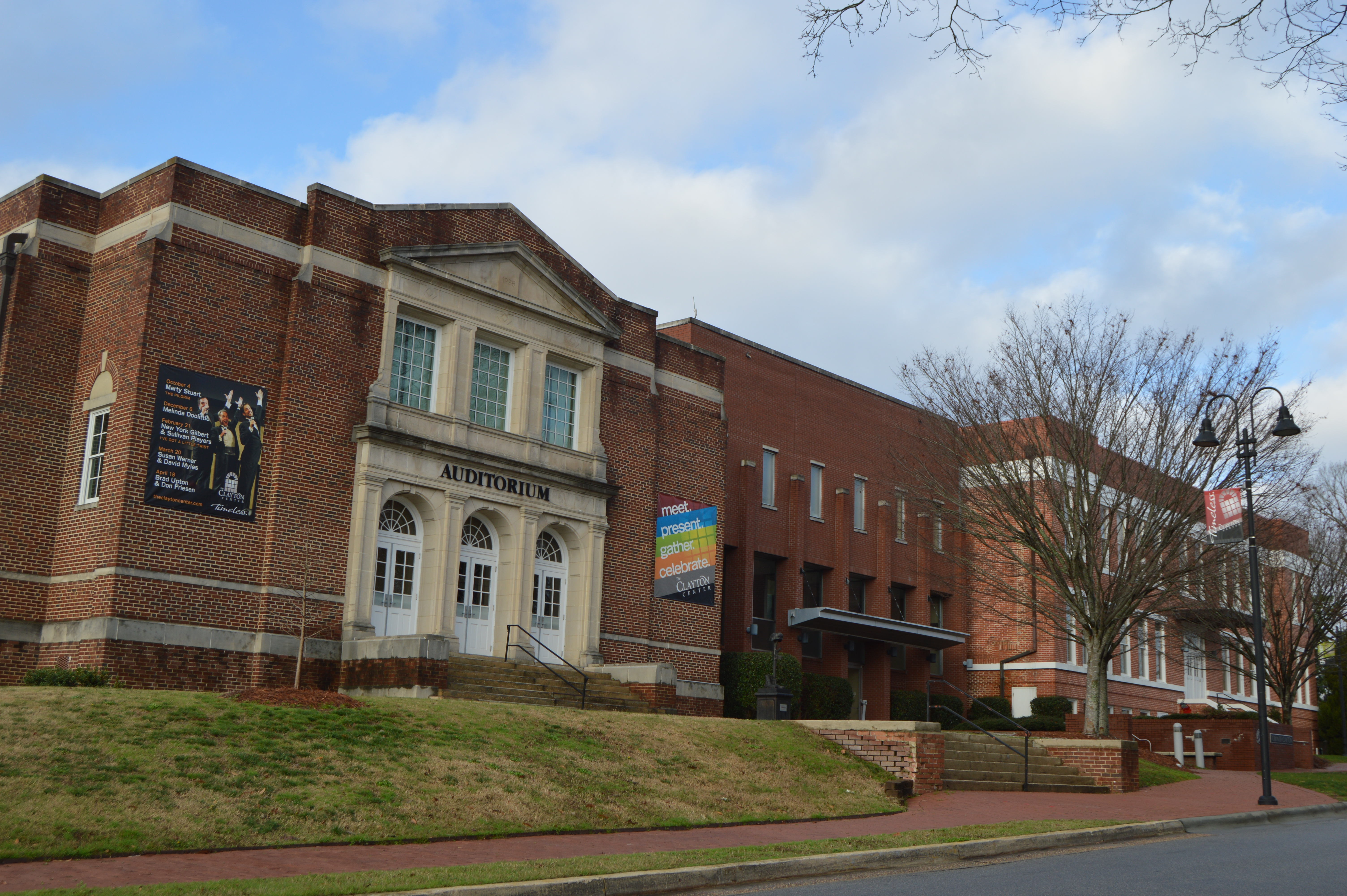 Front of the former Clayton Auditorium and Elementary School, located at 101 and 111 Second Street in Clayton, North Carolina, United States. Built in 1926 and 1915, they are listed together on the National Register of Historic Places.